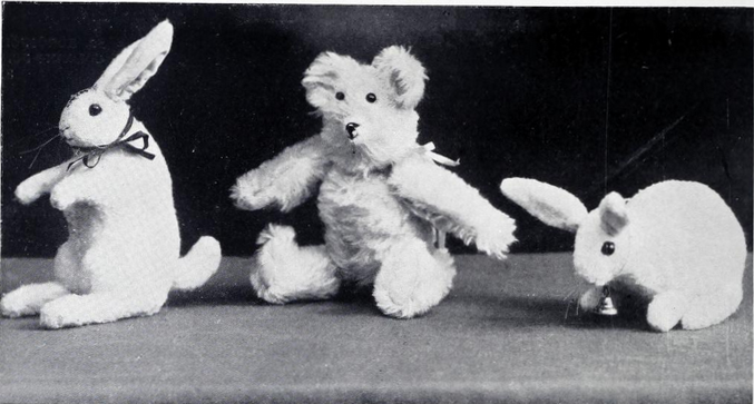 Toys